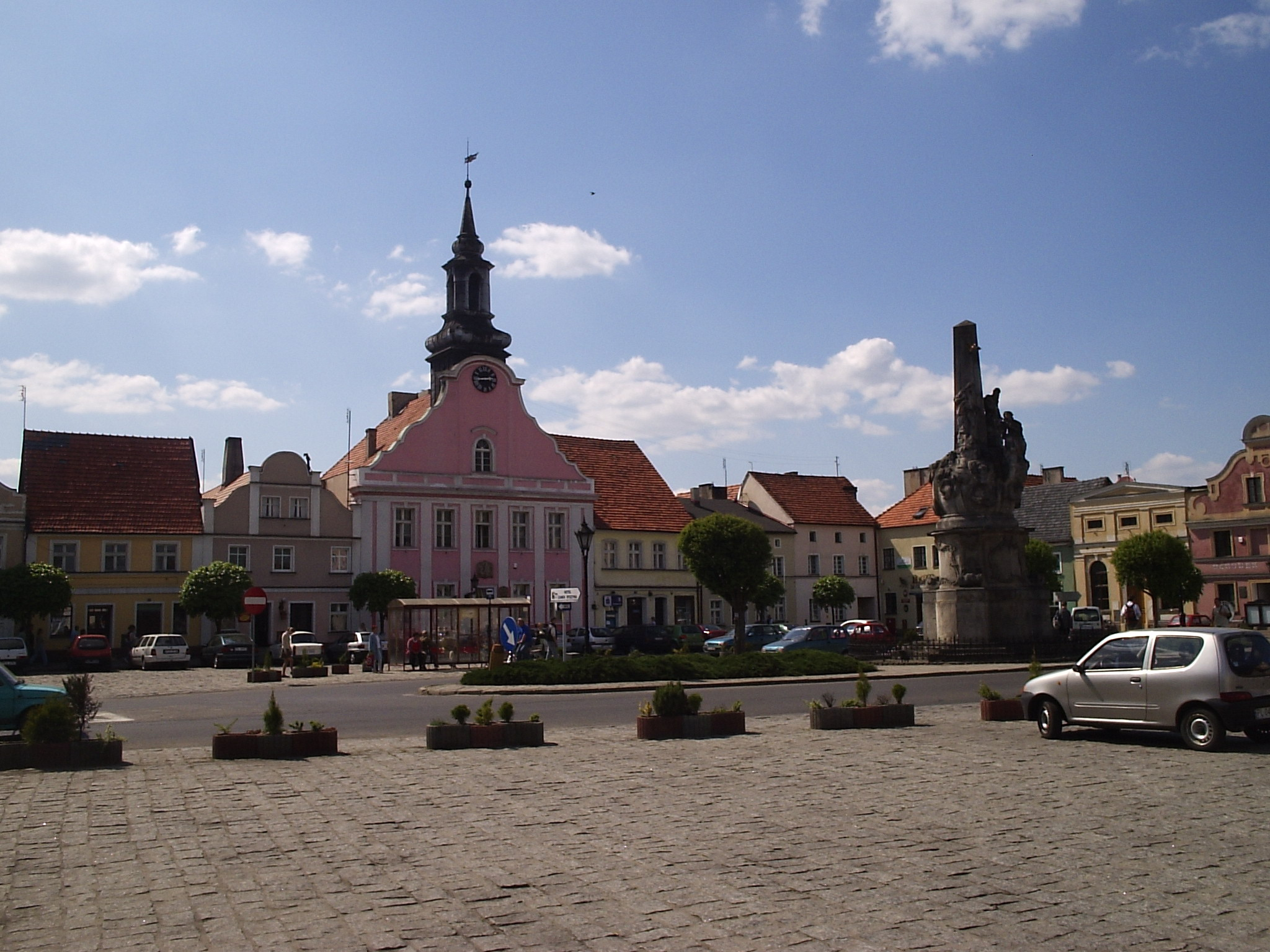 Town Market and Town halls in Rydzyna, Poland